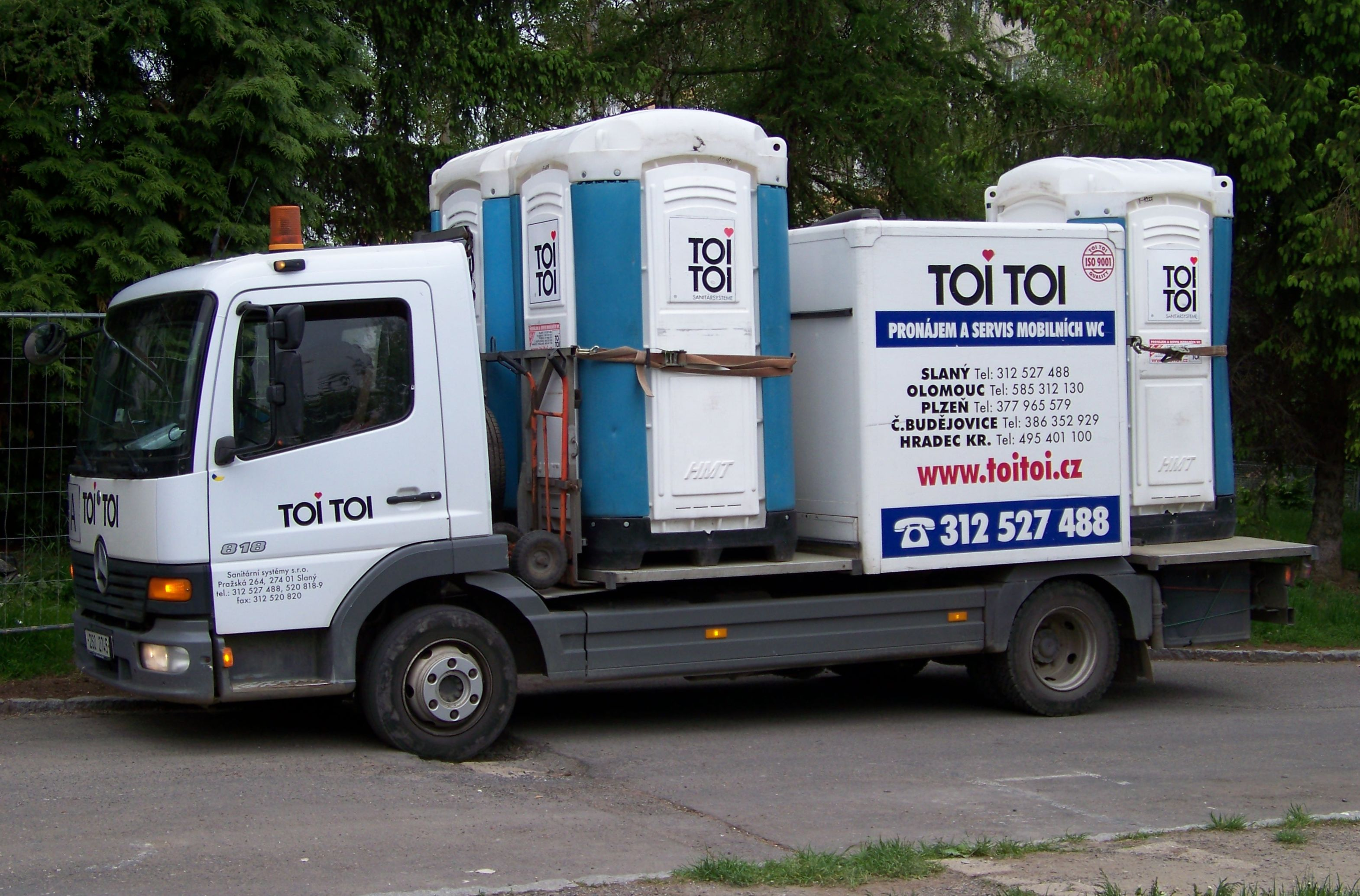 Záběhlice, Prague, the Czech Republic. A toilet truck.